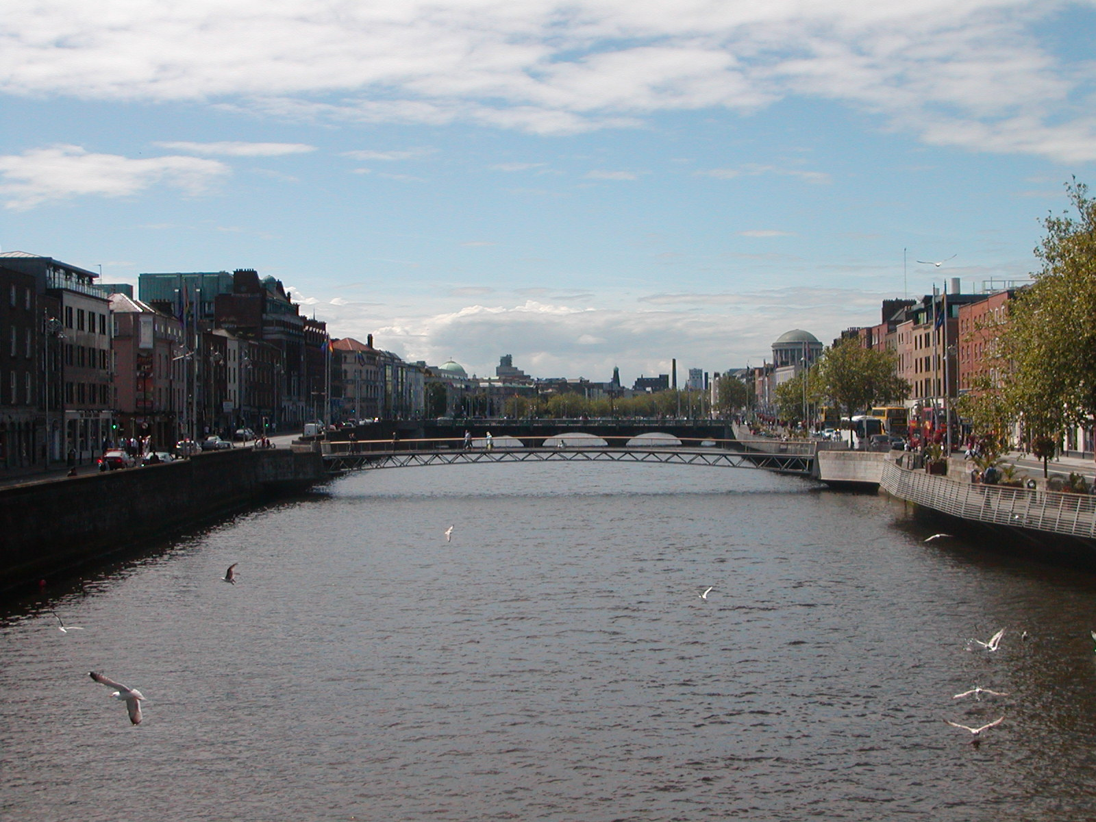 Dublin - the capital of Ireland.